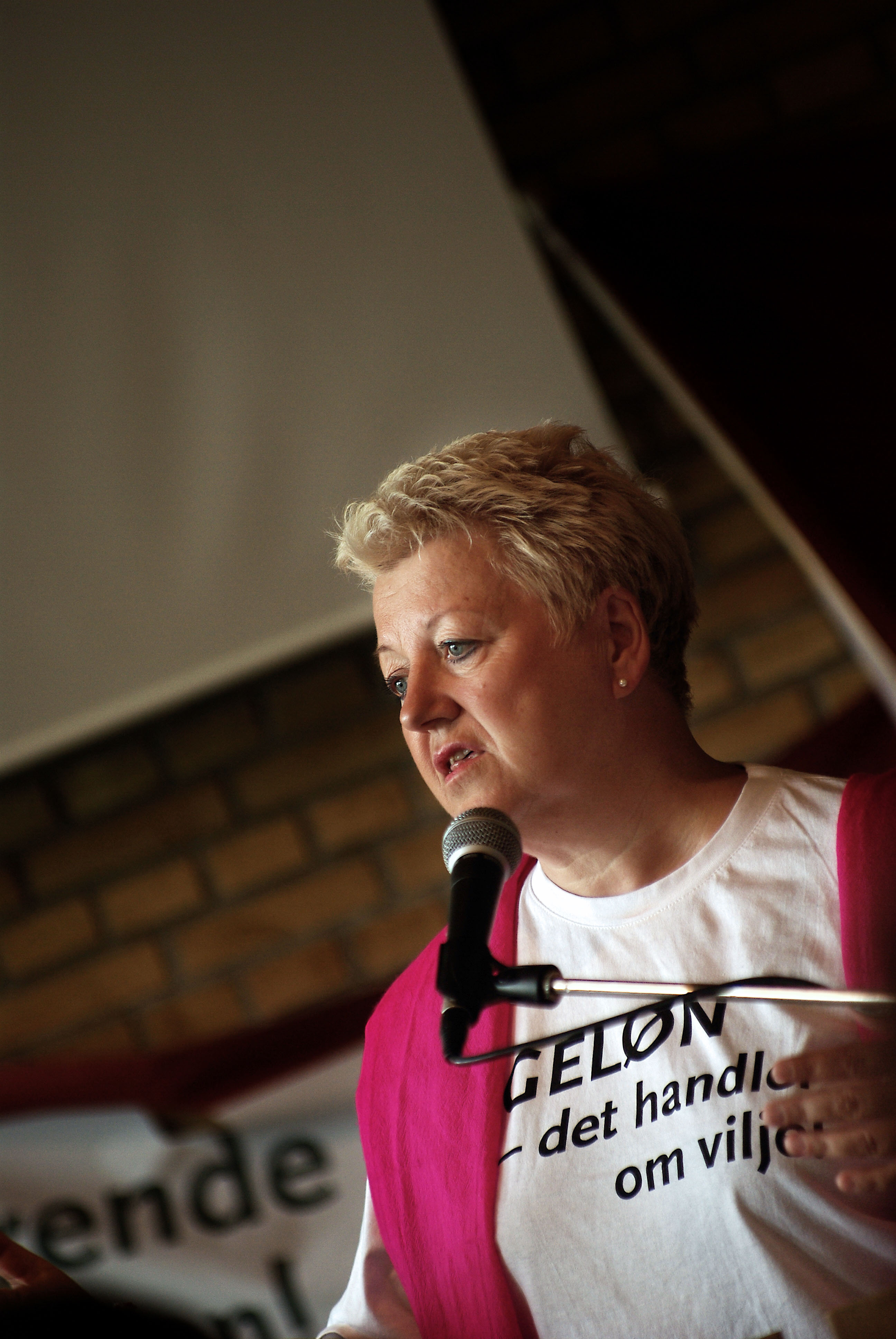 Connie Kruckow speaks at SLS' annual meeting. This is from April 2008